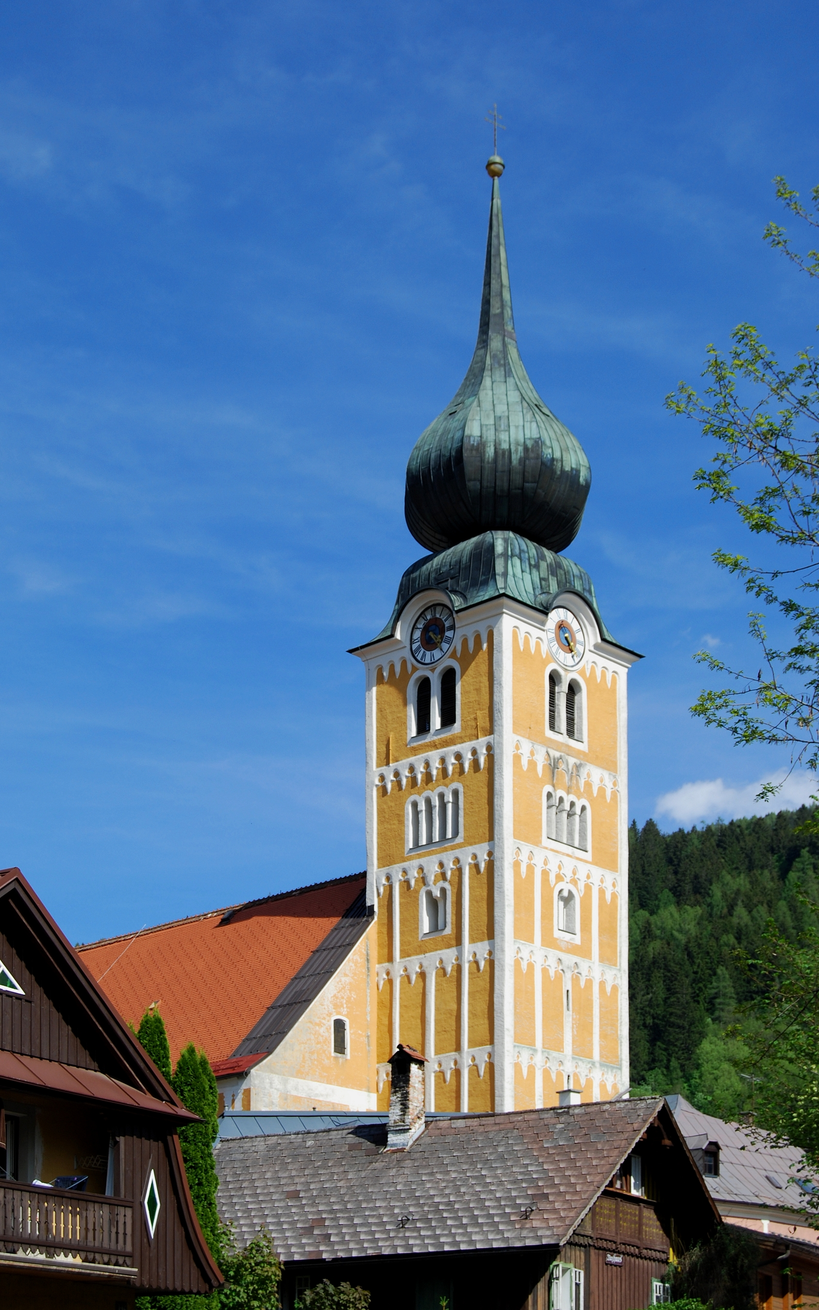 The catholic church of Schladming, Styria.